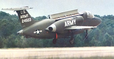 U.S. Army photograph of Lockheed XV-4 Hummingbird V/STOL experimental airplane